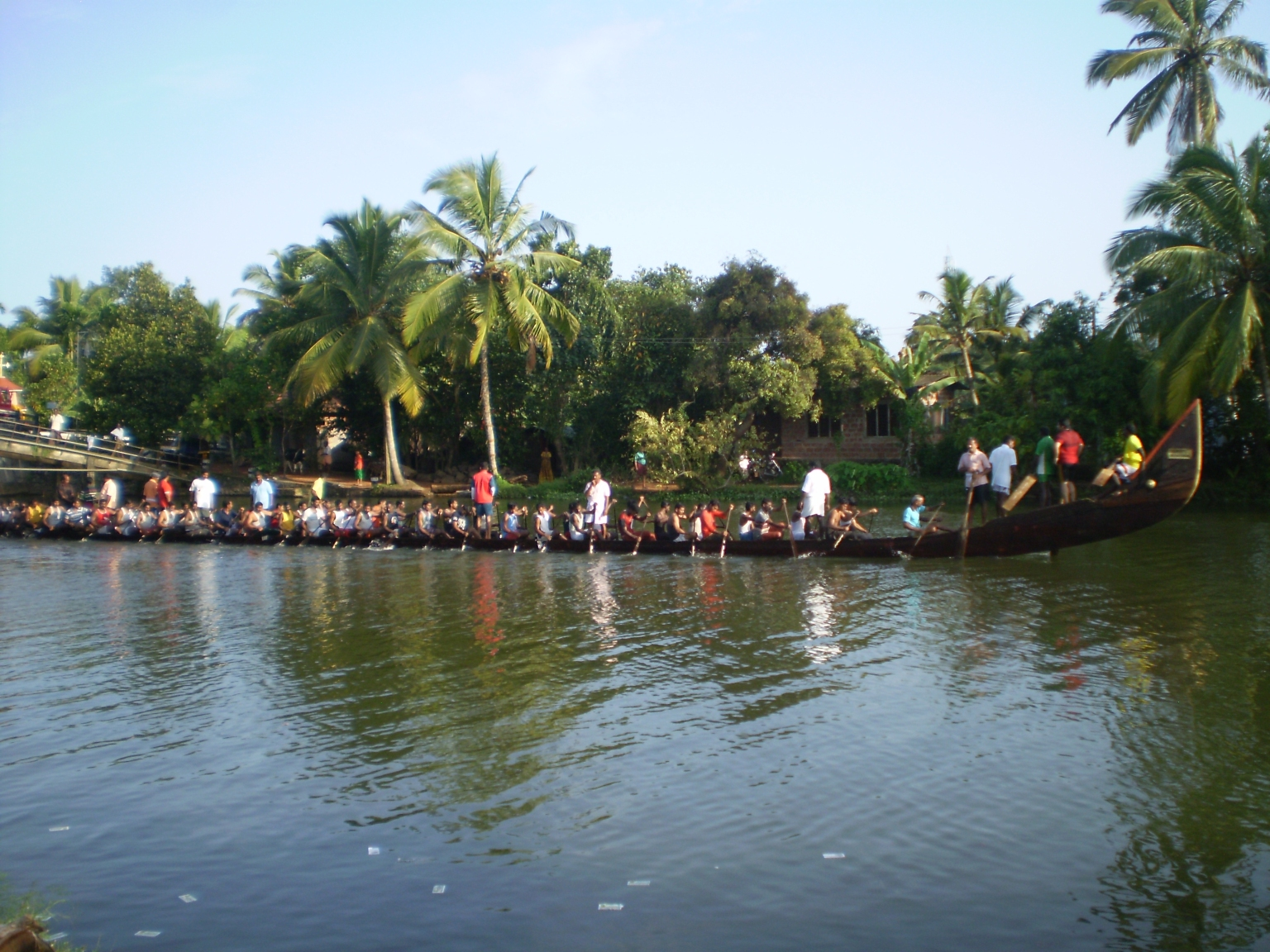 Practicing for Nehru trophy boat race 2010, Mampazhakkary